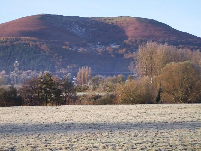 Blorenge from Abergavenny, Monmouthshire. The 1834ft high Blorenge lies two miles south west of Abergavenny and is here seen from the 'Marches Way' as it makes it way through a frosty Usk Meadow.